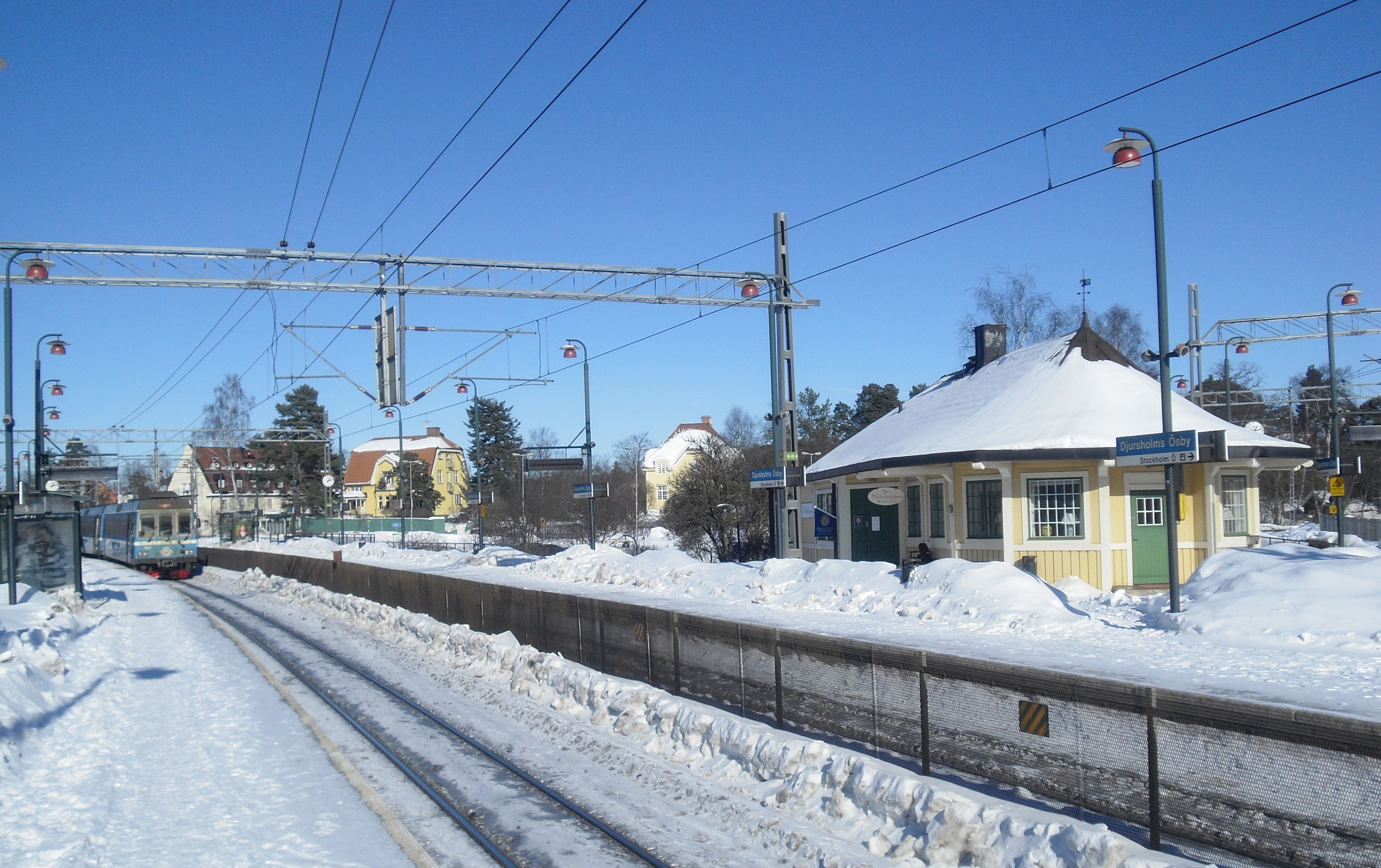 The railway station in Djursholms Ösby, nort of Stockhom, Sweden, March 2010